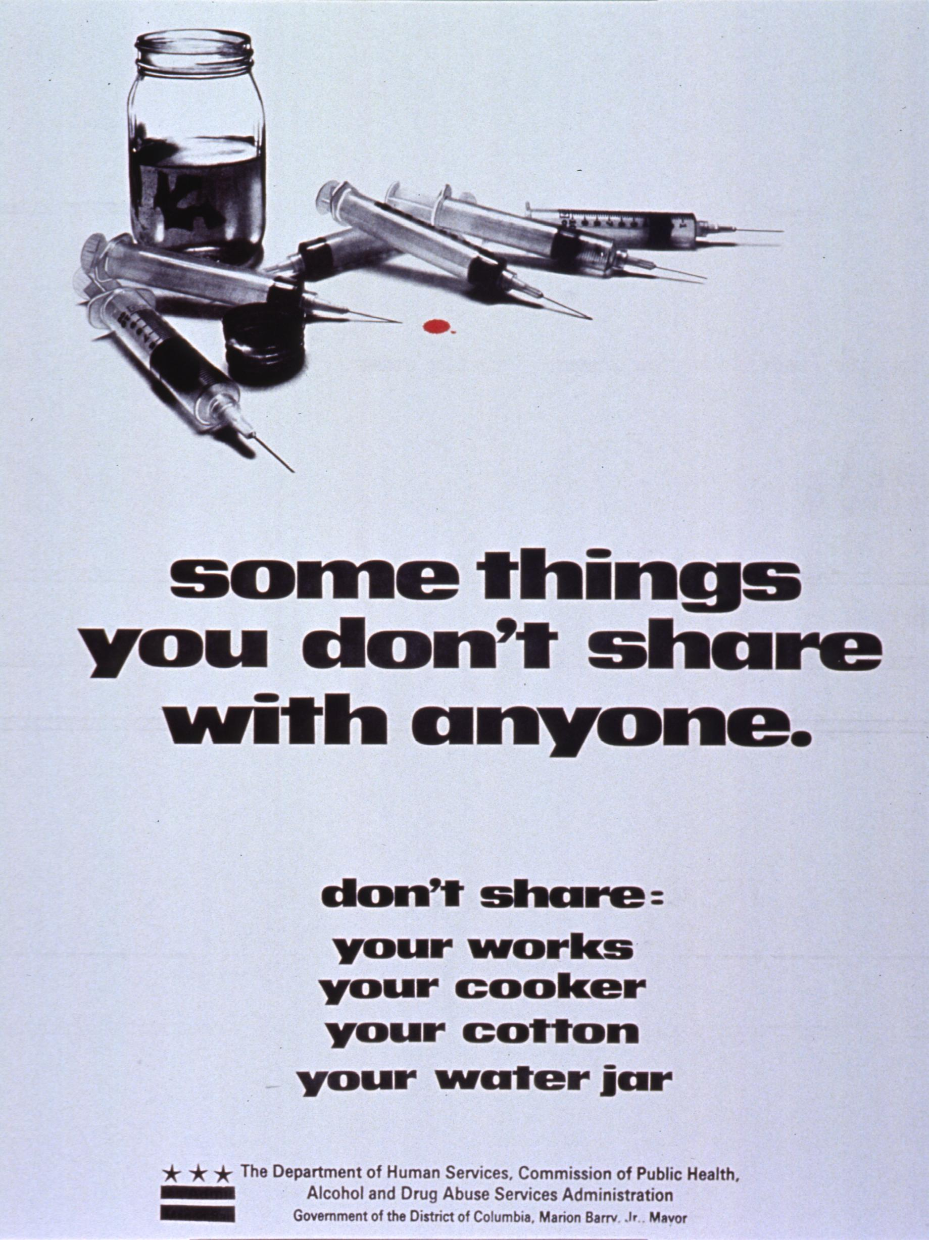 Contributor(s): District of Columbia. Alcohol and Drug Abuse Services Administration. Publication: [Washington] D.C. : Dept. of Human Services, Commission of Public Health, Alcohol and Drug Abuse Services Adminstration, [198-] Language(s): English Format: Still image Subject(s): Acquired Immunodeficiency Syndrome -- prevention & control Needle Sharing -- adverse effects Substance Abuse, Intravenous Genre(s): Posters Abstract: White poster with black lettering. Visual image at top of poster. Image is a reproduction of a black and white photo of drug paraphernalia. One drop of red blood sits between two needles. Title below photo. Caption below title. Publisher information at bottom of poster. Extent: 1 photomechanical print (poster) : 56 x 44 cm. Technique: color NLM Unique ID: 101438957 NLM Image ID: A025486 Permanent Link